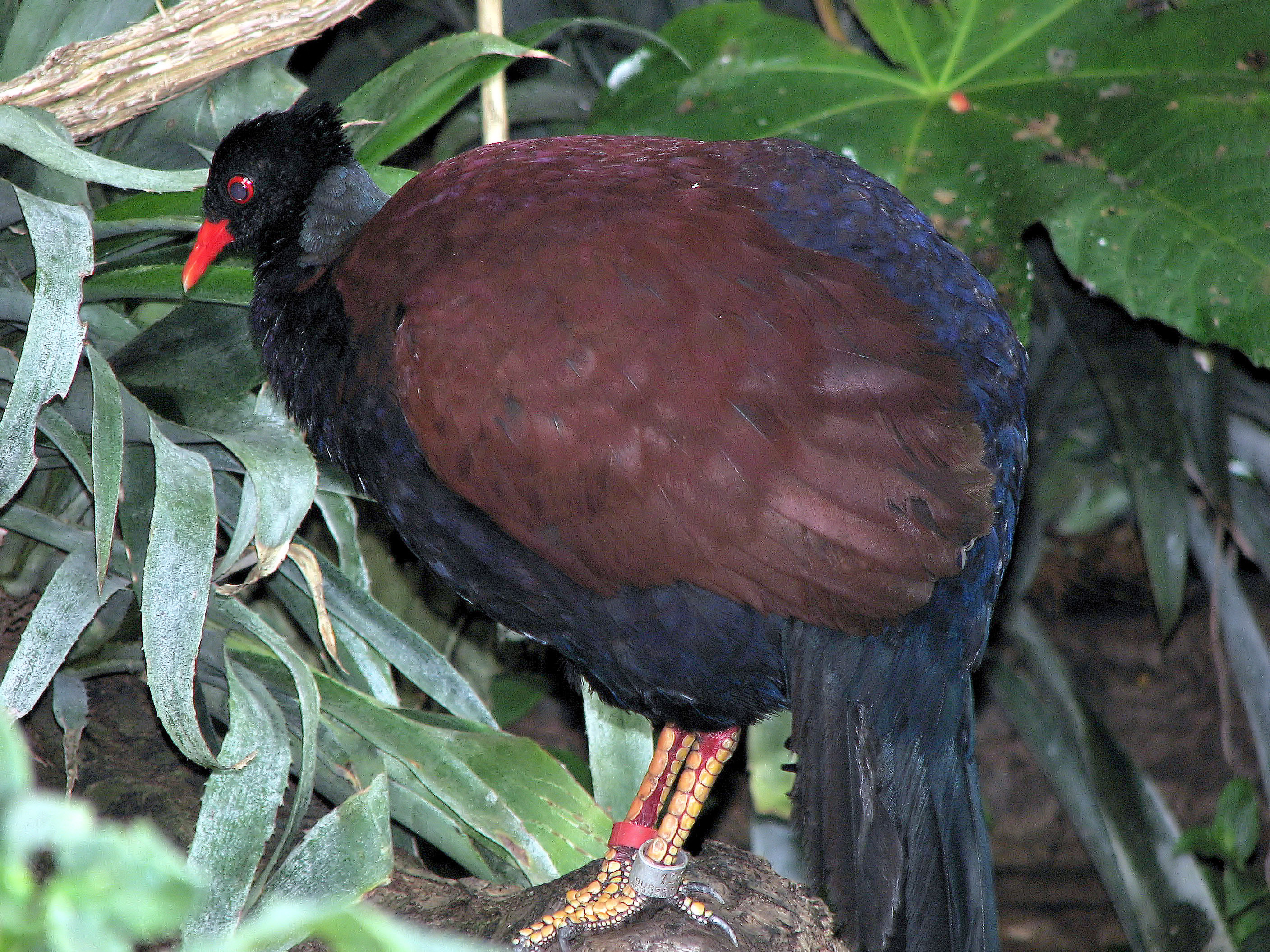 Pheasant Pigeon Otidiphaps nobilis nobilis at Bristol Zoo, Bristol, England.